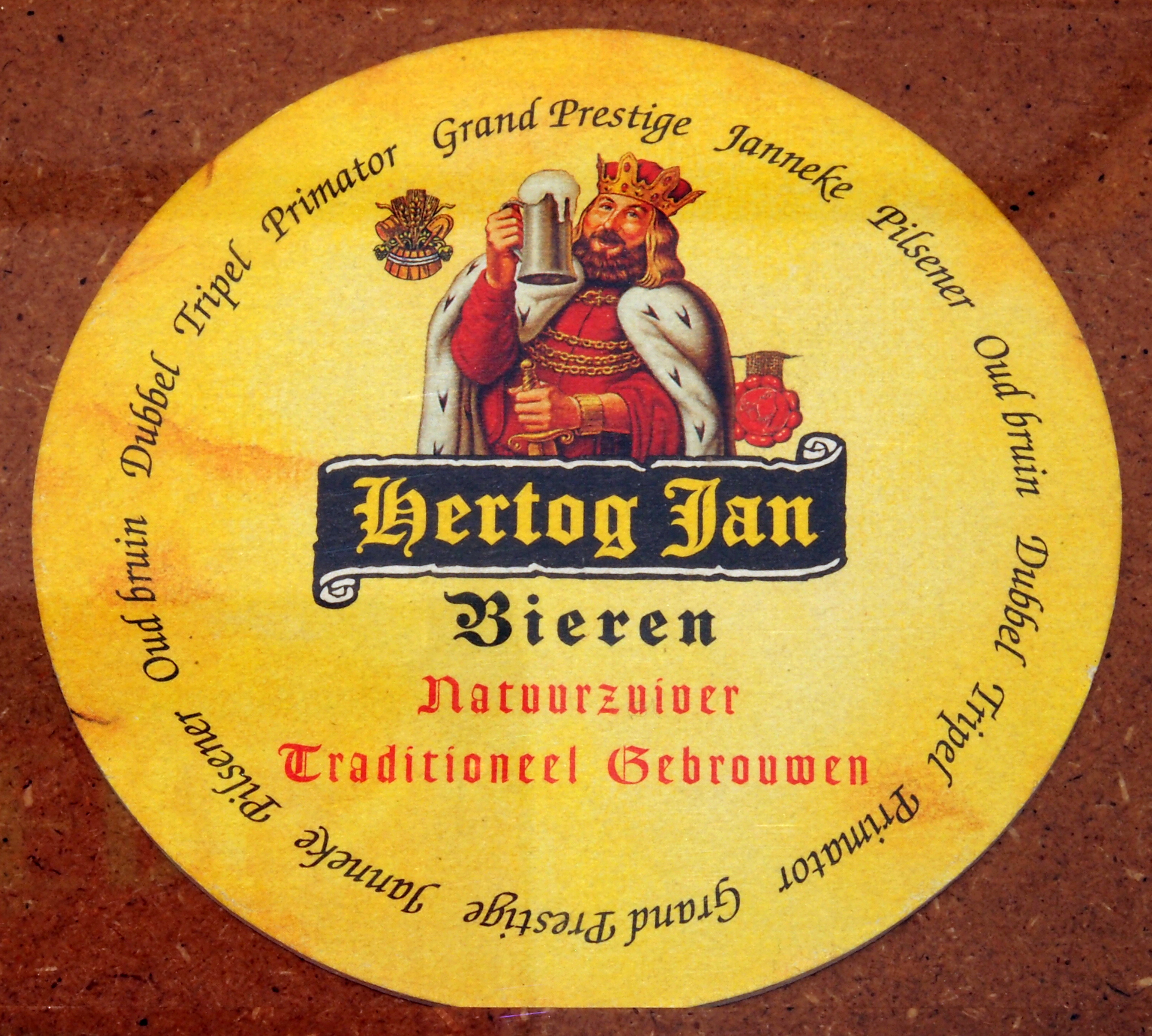 Hertog Jan Bieren. (Photographed through glass.)